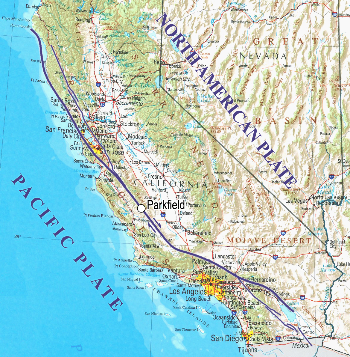 Topographic map of the US state of California including the San Andreas Fault plus its main branches (violet lines) as well a the position of the small village of Parkfield, CA, which plays a special role in the San Andreas Fault research.